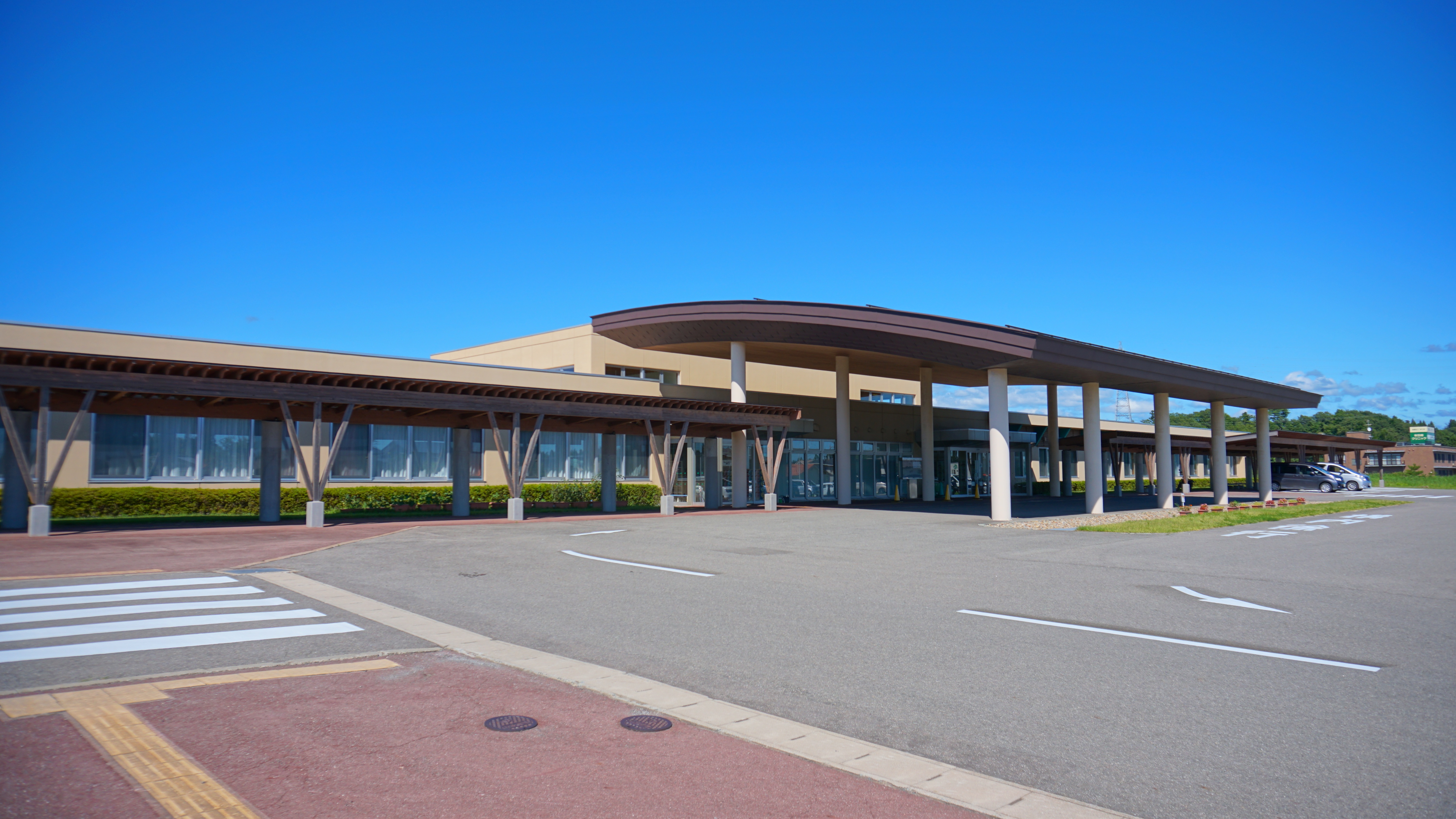 Akita Prefectural Center on Development and Disability in Kagayaki-no-Oka Campus, Akita City, Japan